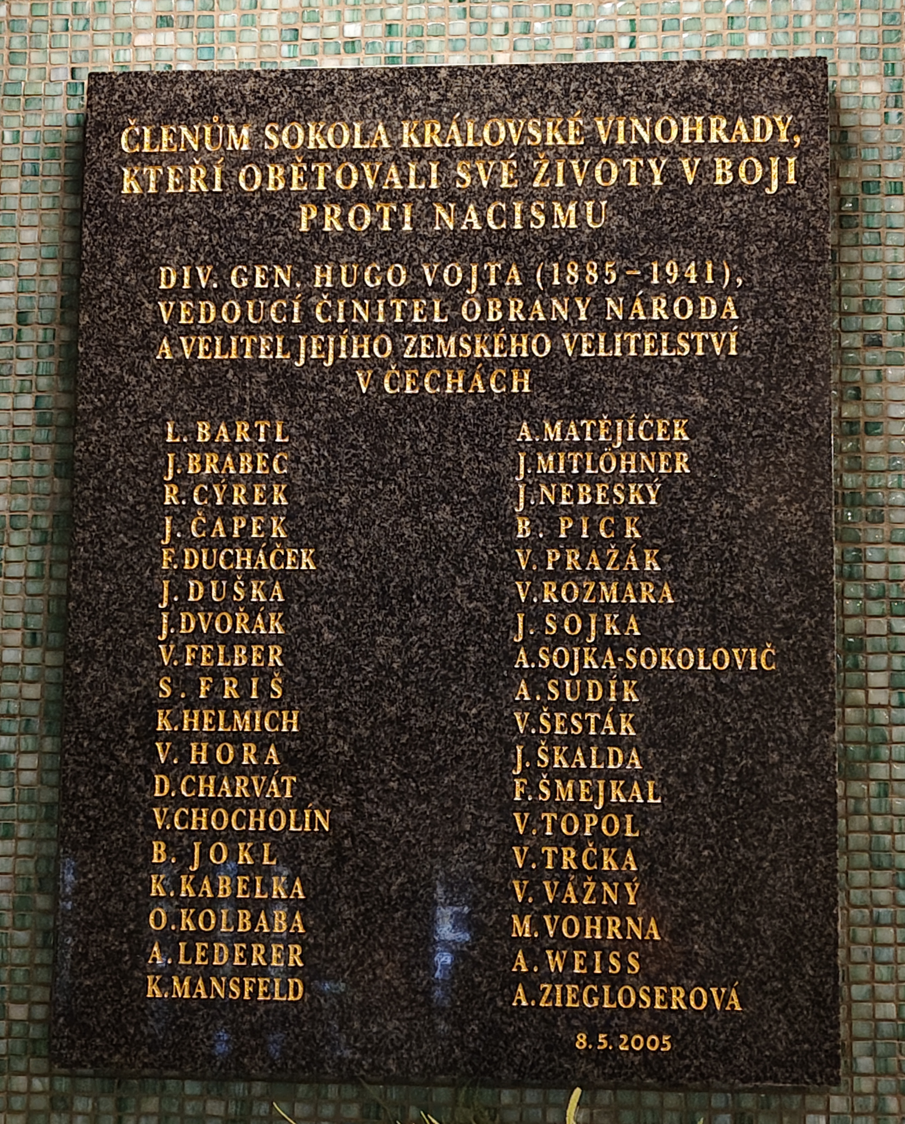 Memorial Plaque dedicated to "victims of the 2nd World War" in the lobby of the building of Sokol Vinohrady in orchards Rieger (Prague 2, Polska street 1533/1, Vinohrady).